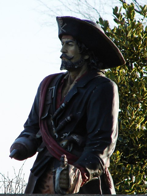 Cap'n Stump This lifelike pirate greets passing motorists on the A158. He can be a bit of a shock the first time. I can only assume his hook has been removed for 'Health and Safety' reasons!